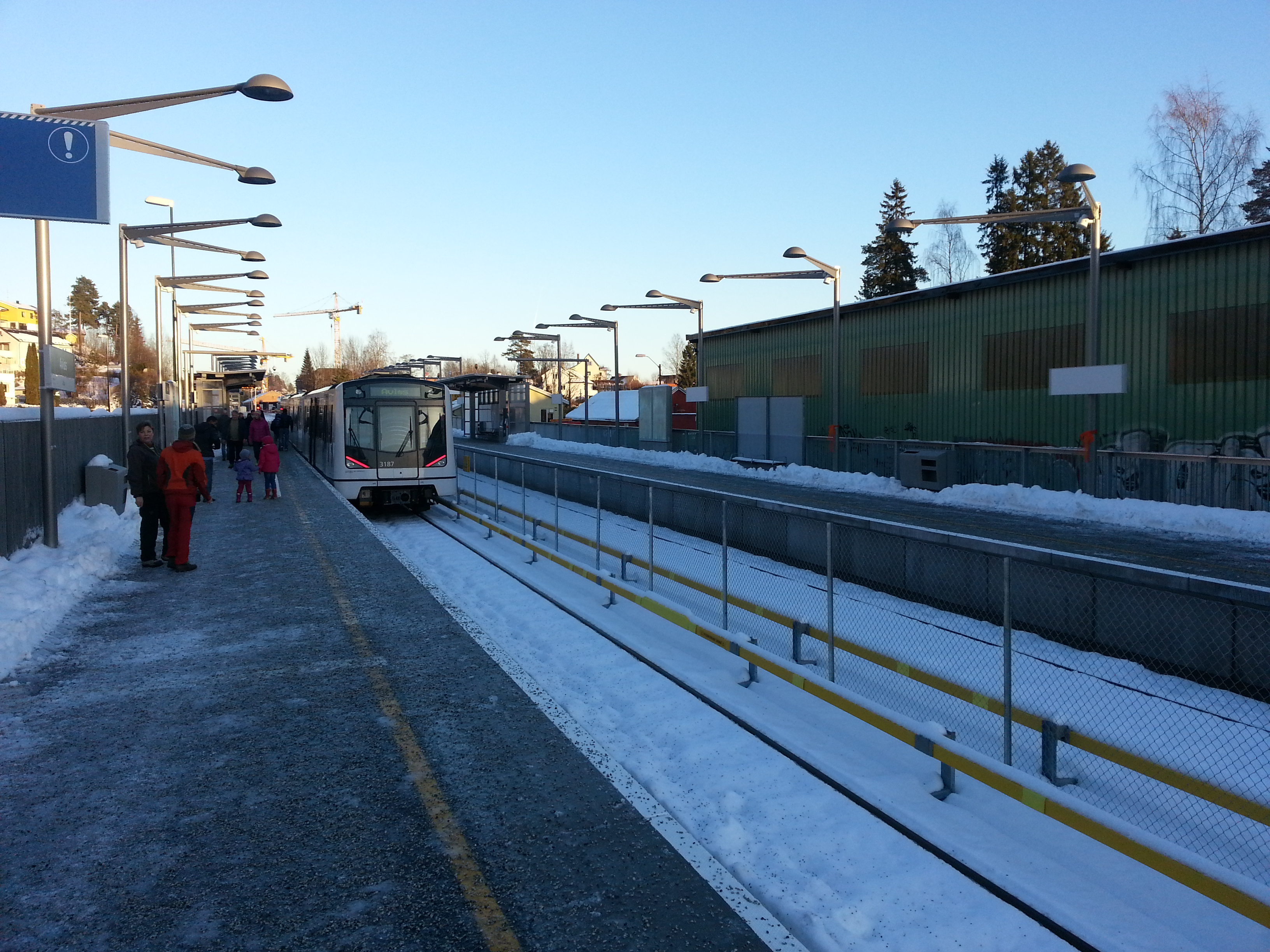 Taken from the newly rebuilt westbound platform at Avløs station, this picture depicts one of the few first rapid transit trains arriving, at the date of the re-opening.